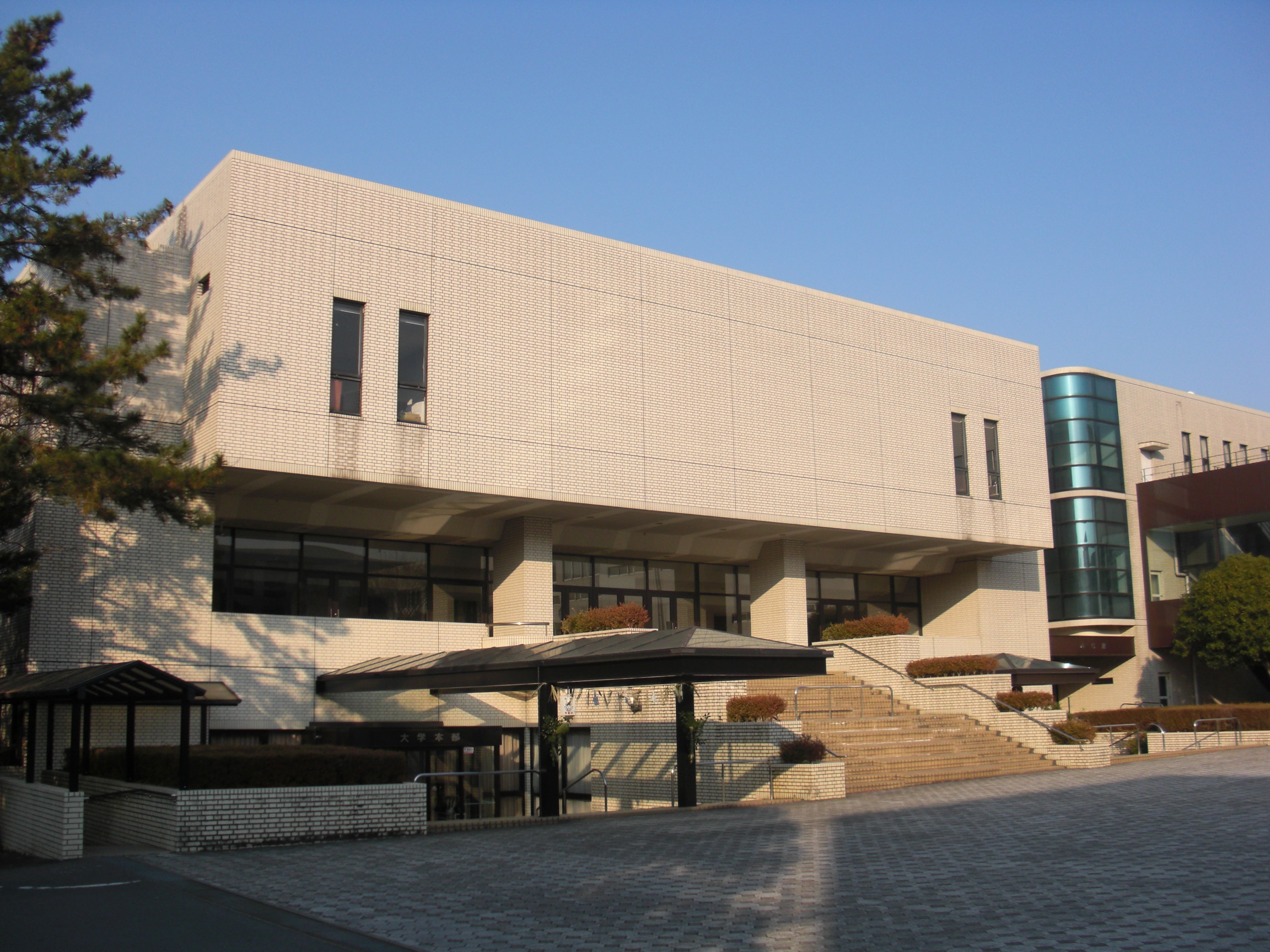 This is the building for head office of Kogakkan University, which is located in Ise, Mie, Japan.